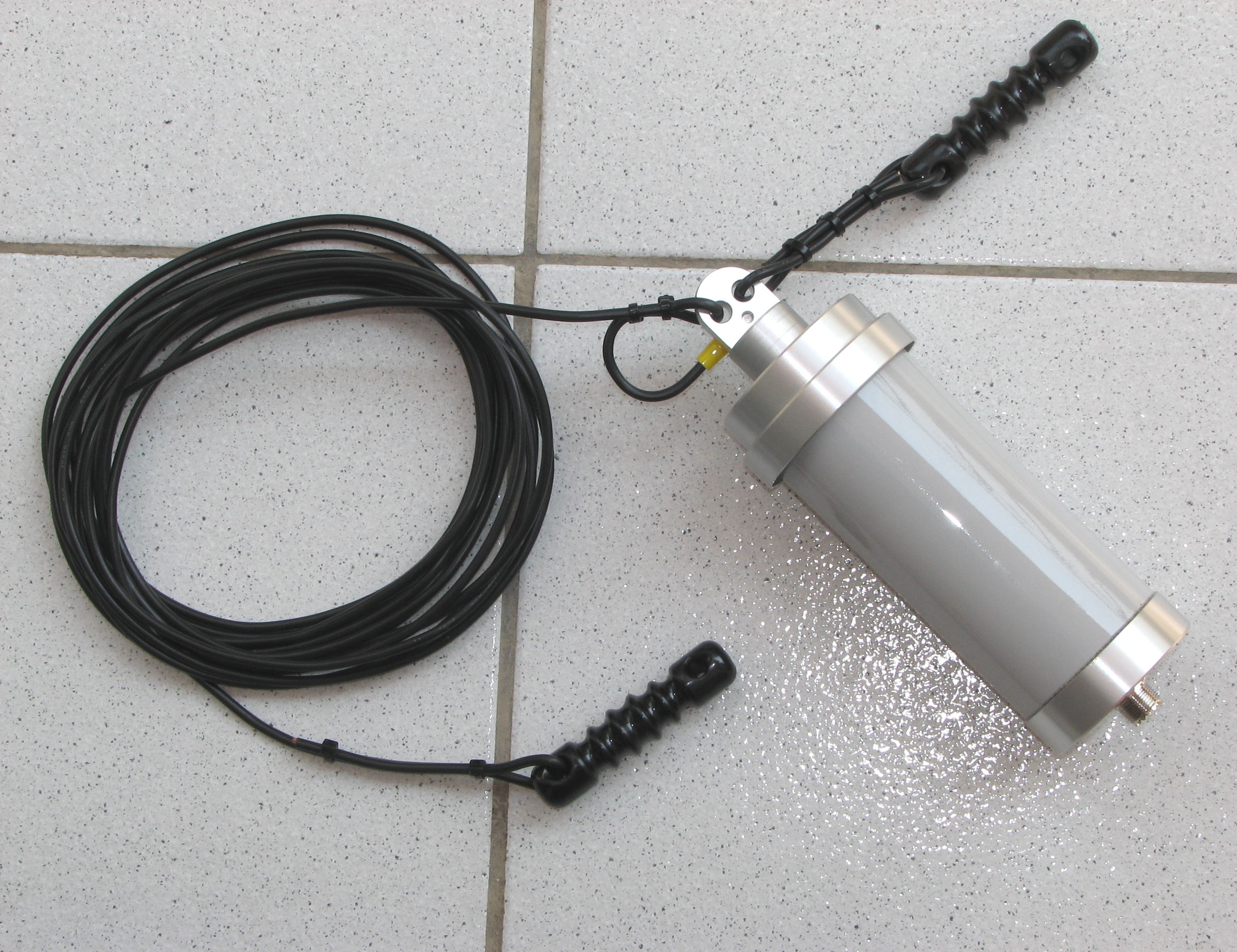 A kit to make a random wire antenna. Wire antennas are used for short wave listening, and by radio amateurs for low power transmitting, in the long wave, medium wave, and shortwave radio bands. The kit consists of a long wire attached at each end to a strain insulator. One end is attached electrically to a balun (cylinder), a small transformer which serves to match the impedance of the antenna to a coaxial cable feedline. To install the antenna, the wire is strung between two buildings or trees high above the ground, supported at the ends by rope attached to the strain insulators. A coaxial cable is attached to the connector on the balun which conducts the radio signal to a radio receiver or, in the case of transmission, feeds radio power from a radio transmitter to the antenna.